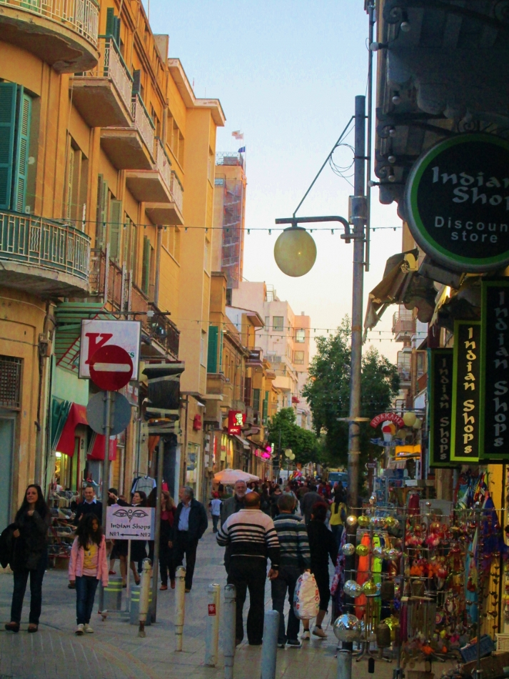 Ledras tourist street